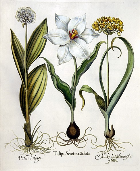 Hortus Eystettensis Plate 79: Late white tulip, Golden garlic, Mountain garlic